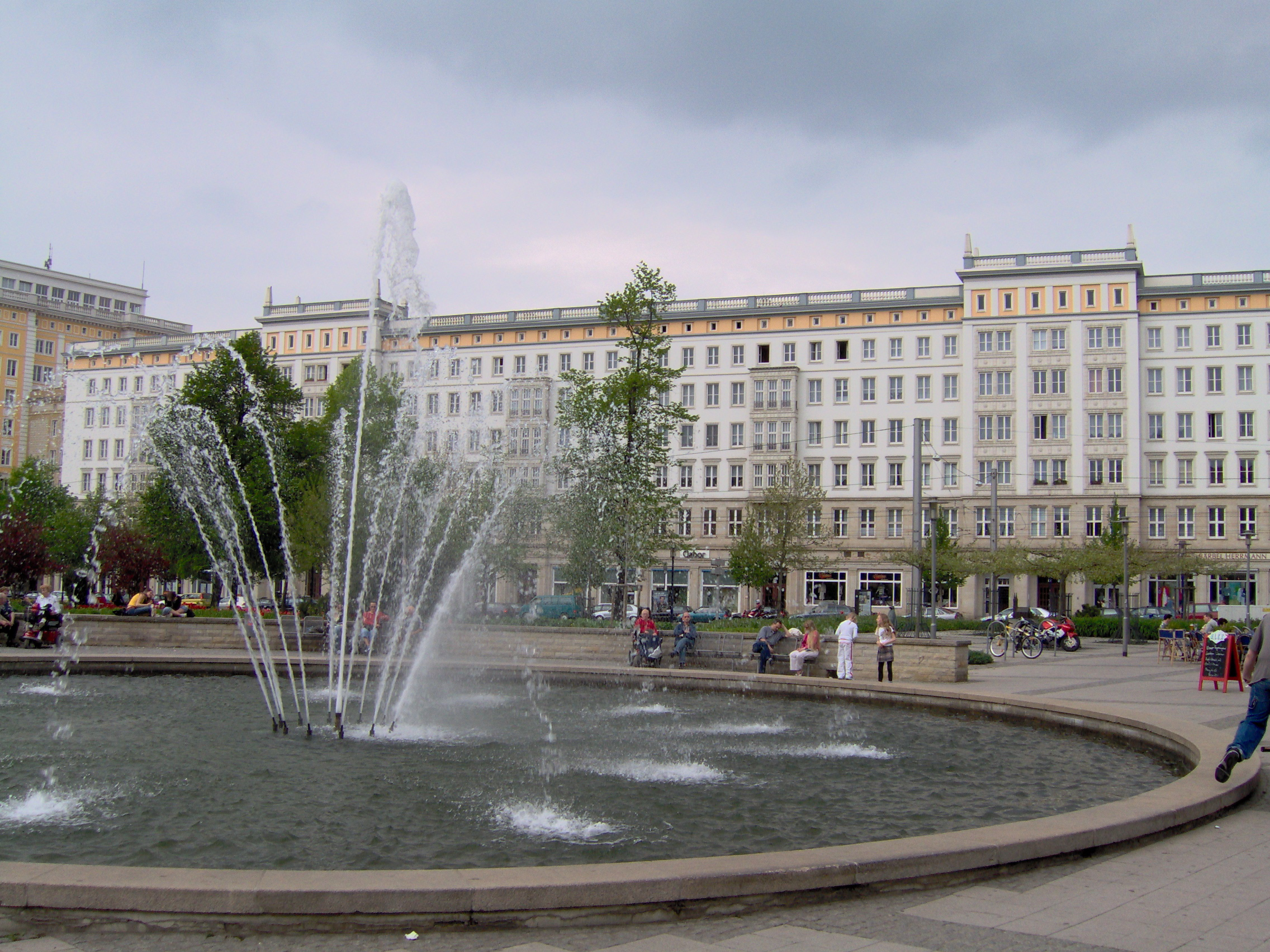 Neo-classicism in central Magdeburg. Taken by ProhibitOnions, 2005.